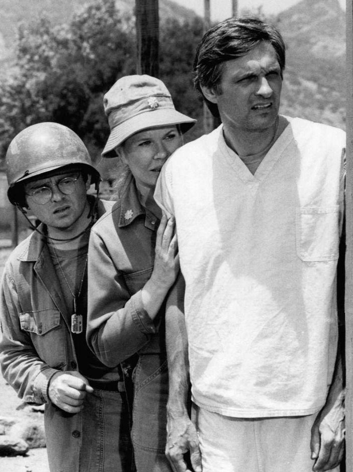 Photo of Gary Burgoff, Loretta Swit and Alan Alda from the television program M*A*S*H.